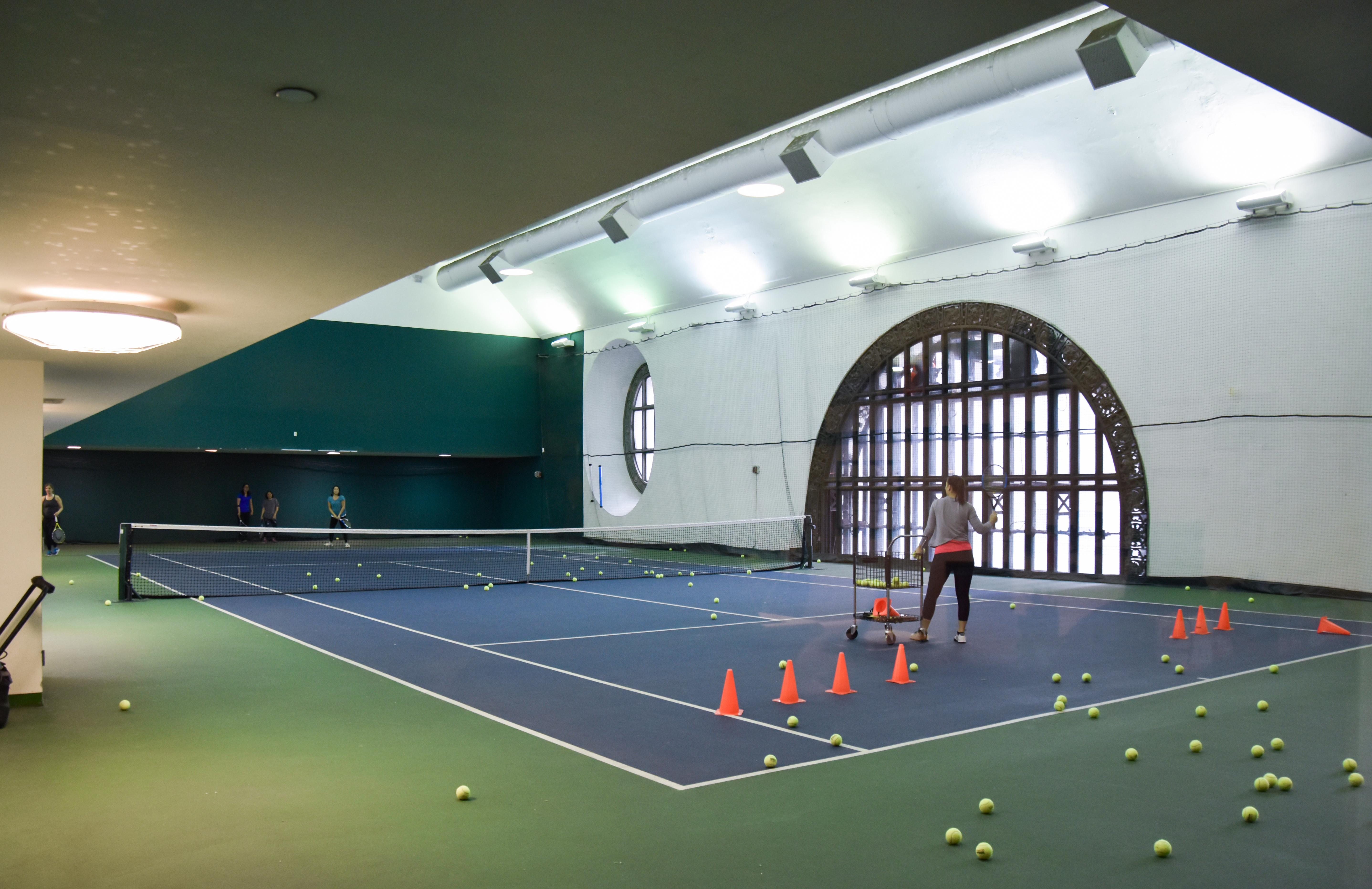 Vanderbilt Tennis Club in New York City's Grand Central Terminal in 2019. Taken as part of a scheduled photoshoot with three other Wikipedians on January 7, 2019.